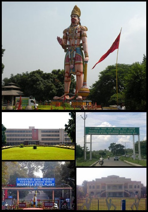 Rourkela Main Icons